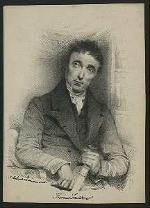 Portrait of the Chelsea bookseller and writer